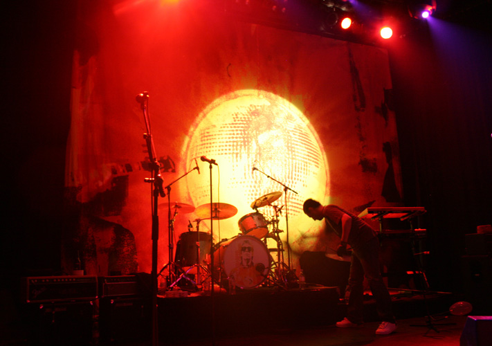 Per Gessle's Party Crasher Tour 2009 scenes decoration